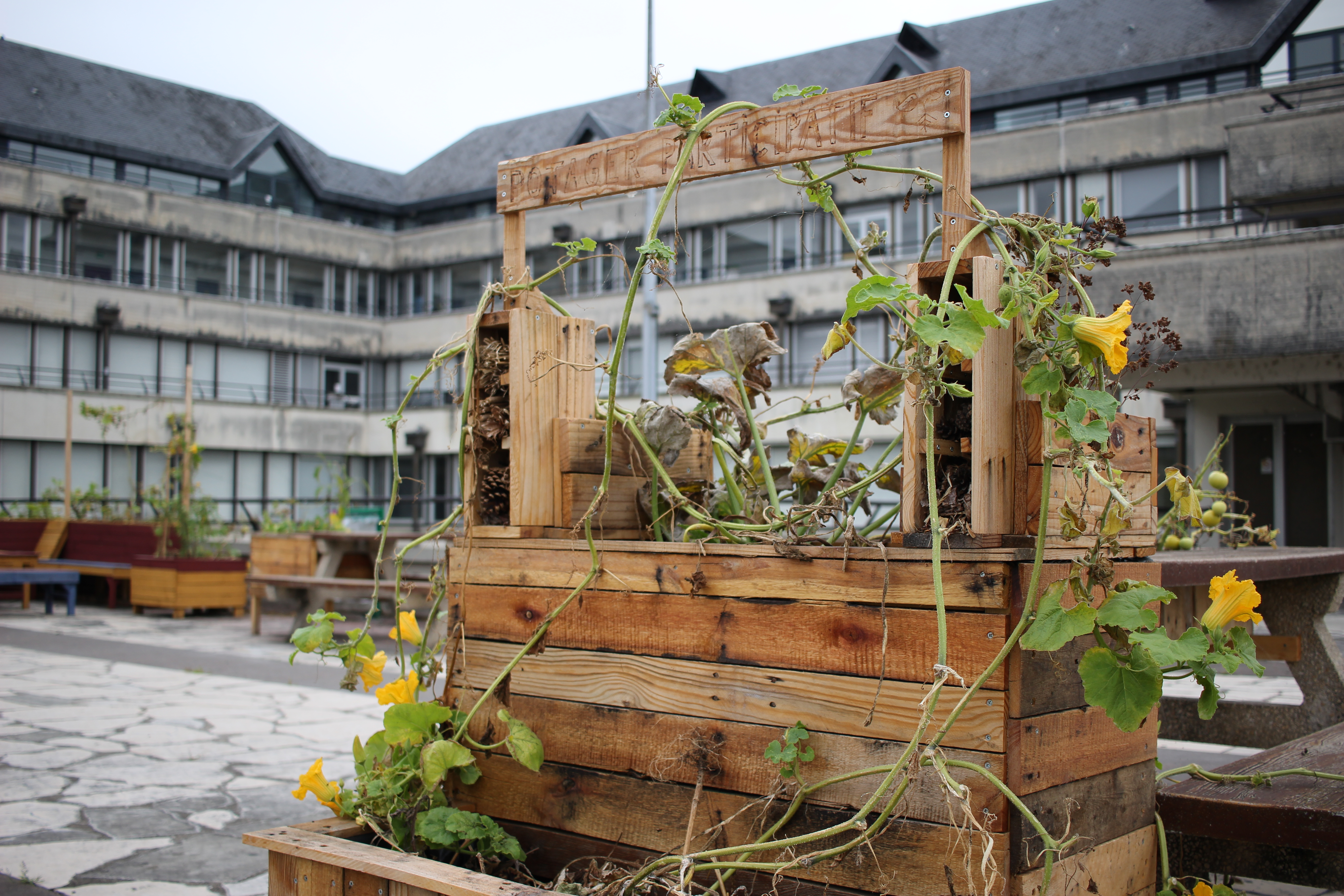 Community garden on the main place of the University of Tours (François Rabelais), in 2017